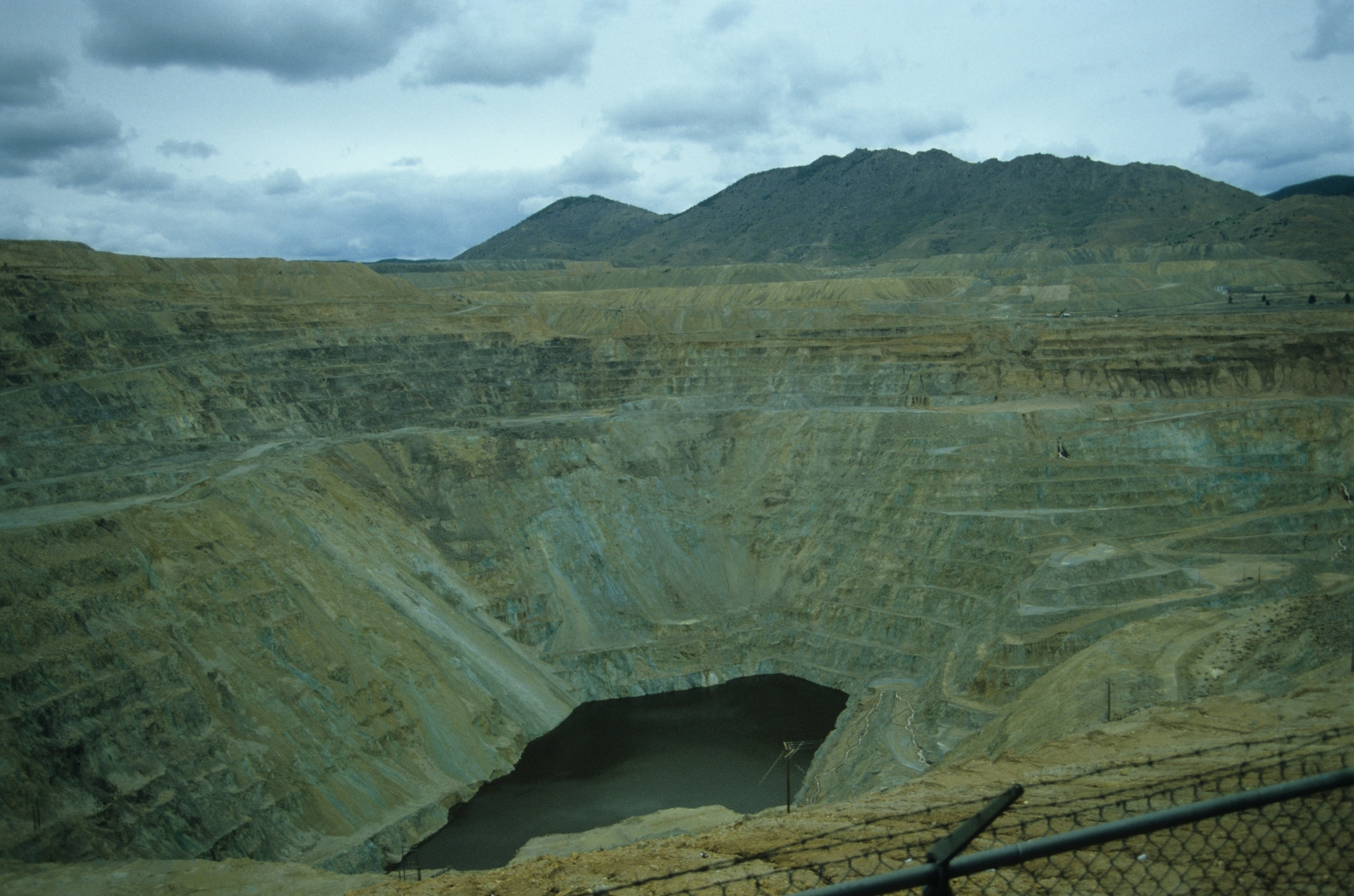 Picture of the Berkeley Pit near Butte, Montana. Original photo(slide) was taken with a analogue camera in May or June 1984.